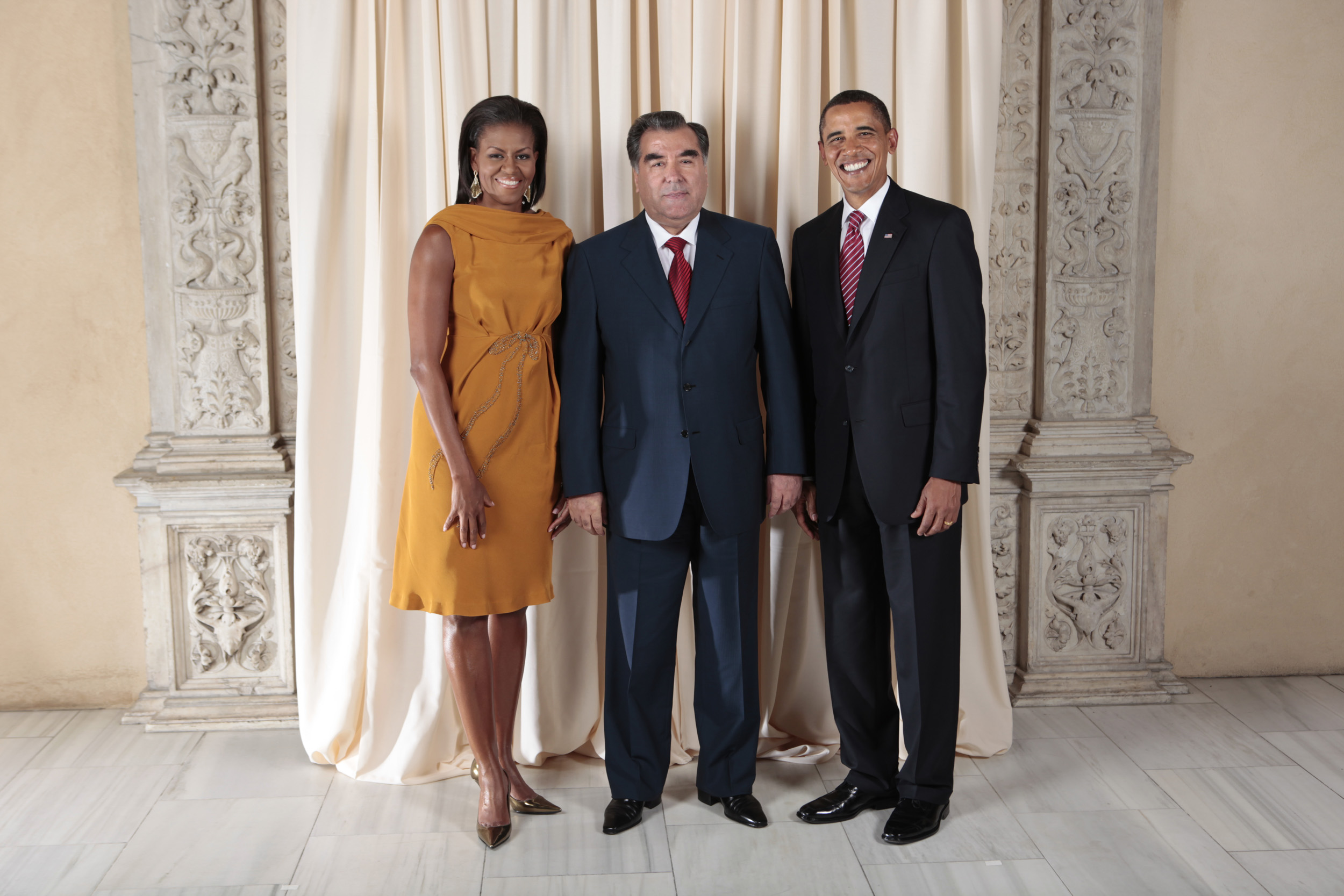 President Barack Obama and First Lady Michelle Obama pose for a photo during a reception at the Metropolitan Museum in New York with Emomali Rahmon, President of the Republic of Tajikistan. Тоҷикӣ: Эмомалии Раҳмон ба ҳамроҳи раиси ҷумҳури амрико Барак Ҳусейн Обама ва ҳамсаращ